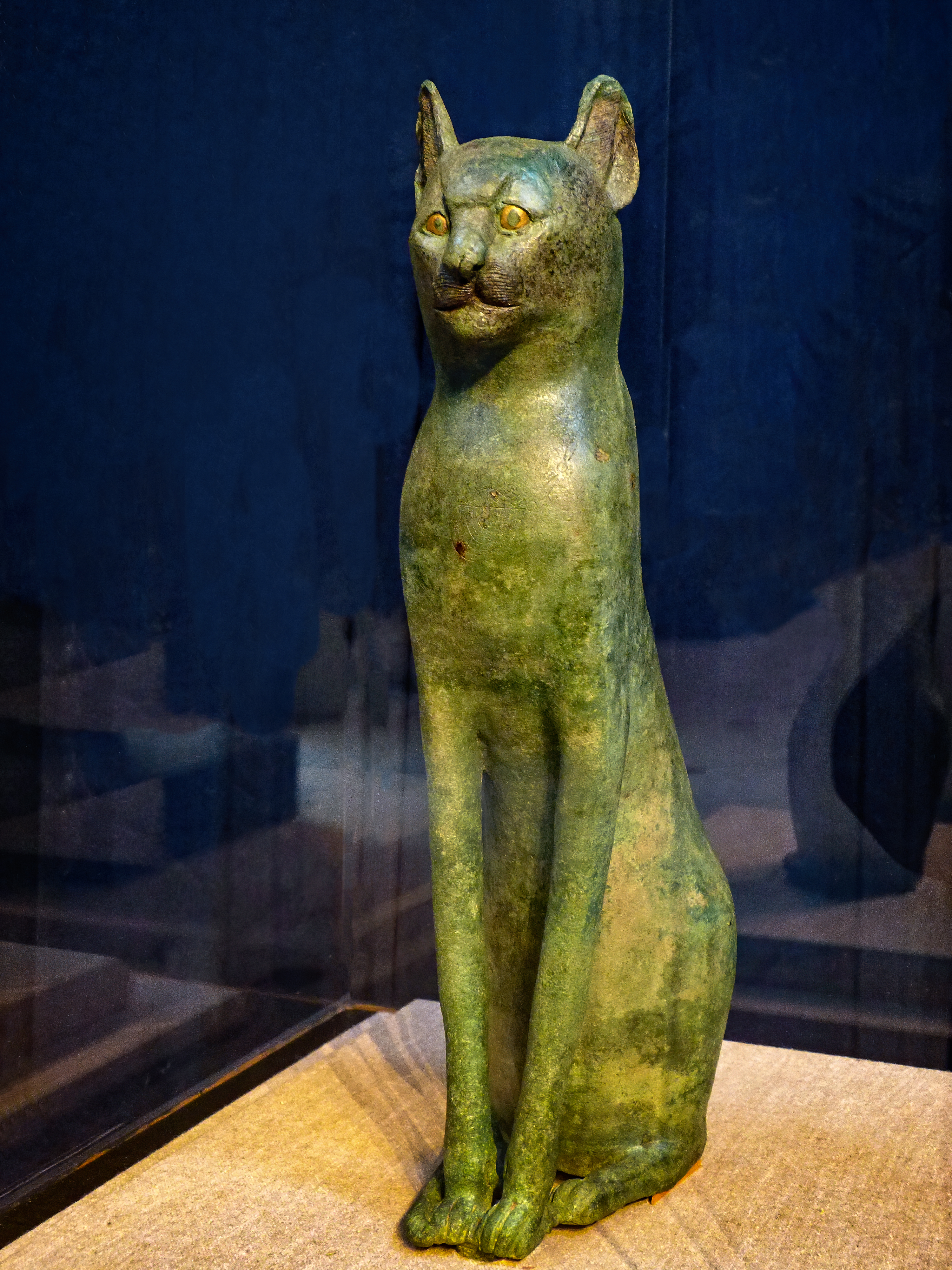 Bronze statue of a cat with gold leaf Dynasty 22 Egypt 945-712 BCE photographed at the University of Pennsylvania Museum of Archaeology